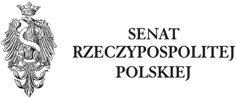 Emblem of the Senate of Poland